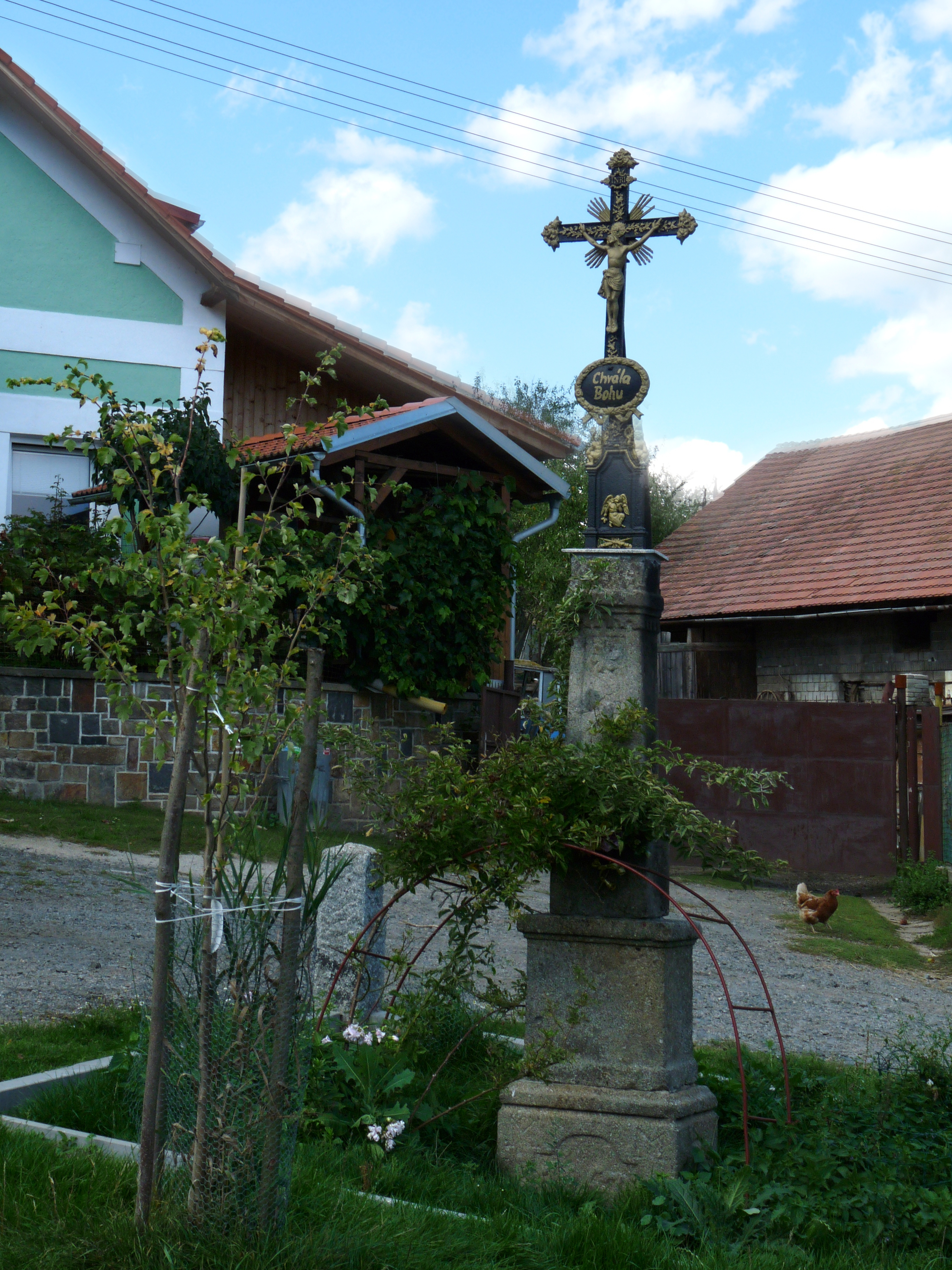 Wayside cross in the village of Semtínek,Benešov District, Central Bohemian Region, Czech Republic.